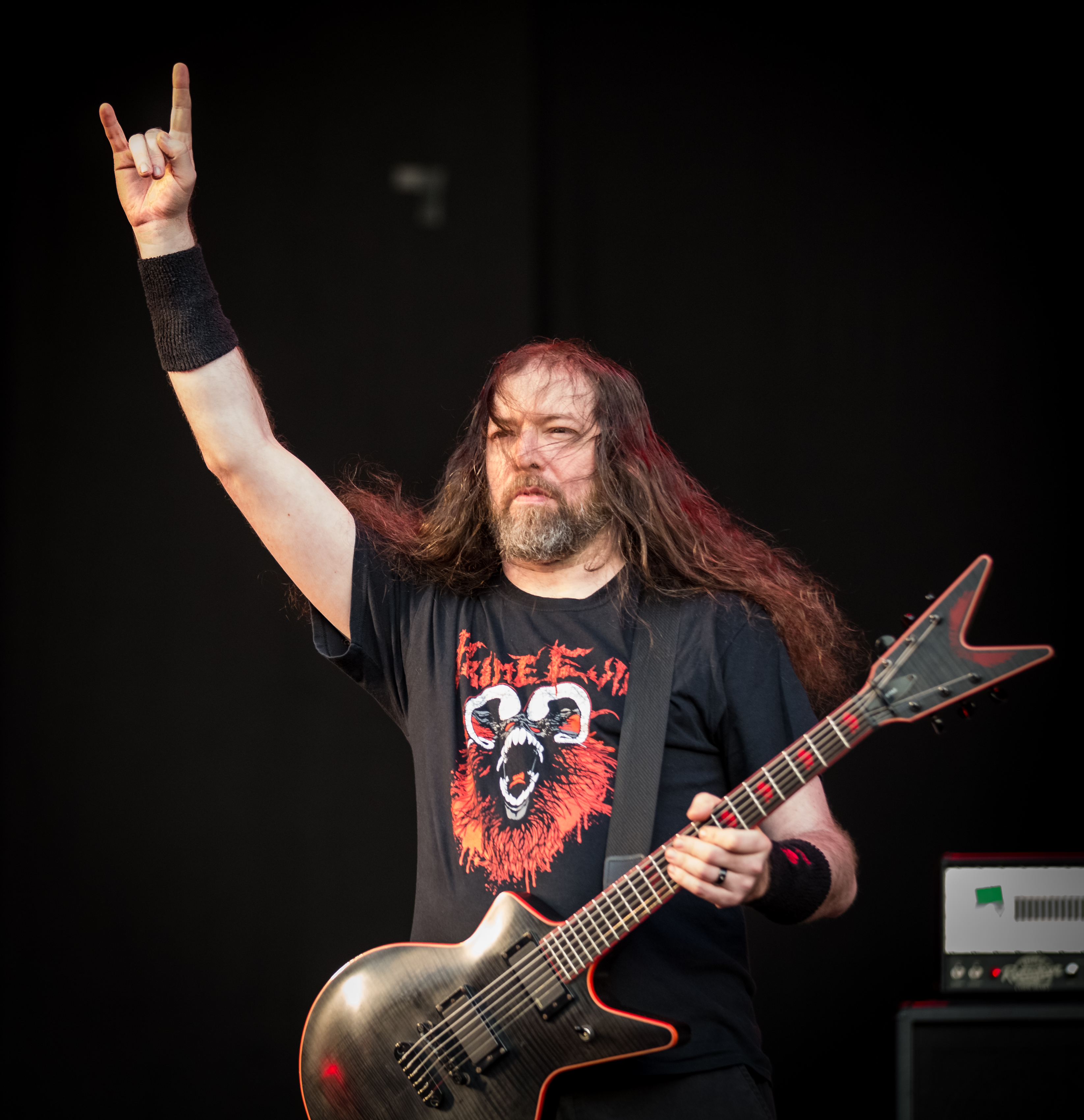 Cannibal Corpse - Wacken Open Air 2015